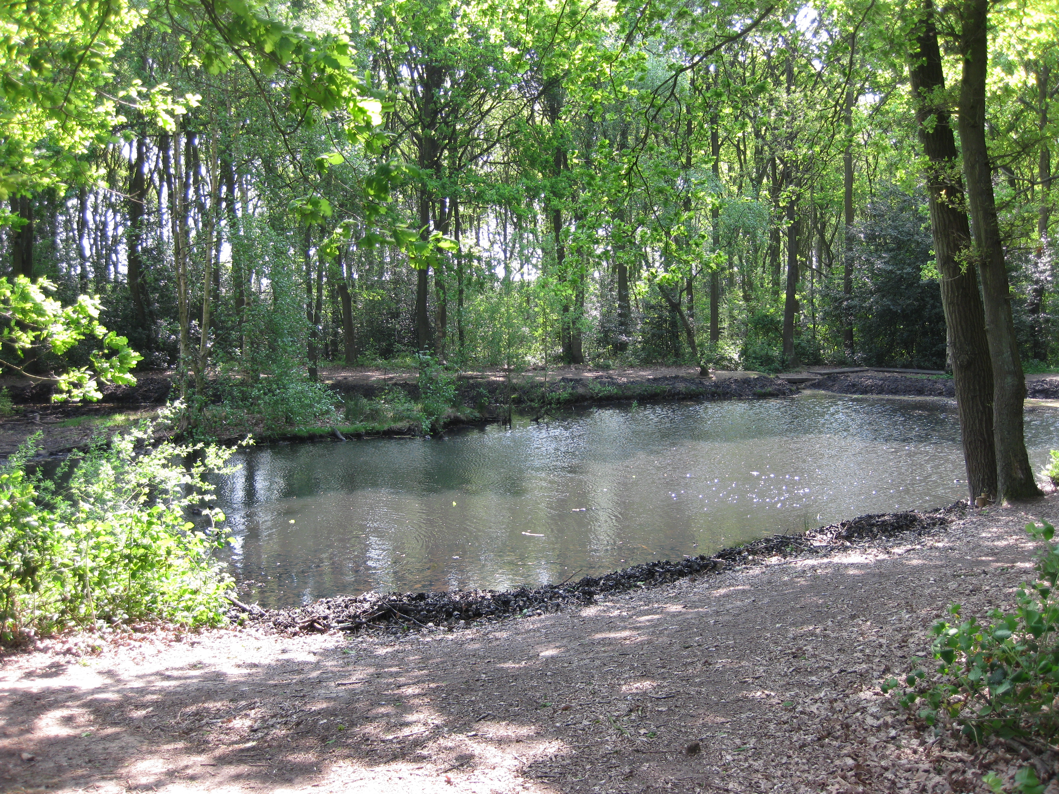 the pond at Palmers Rough local nature reserve in Solihull